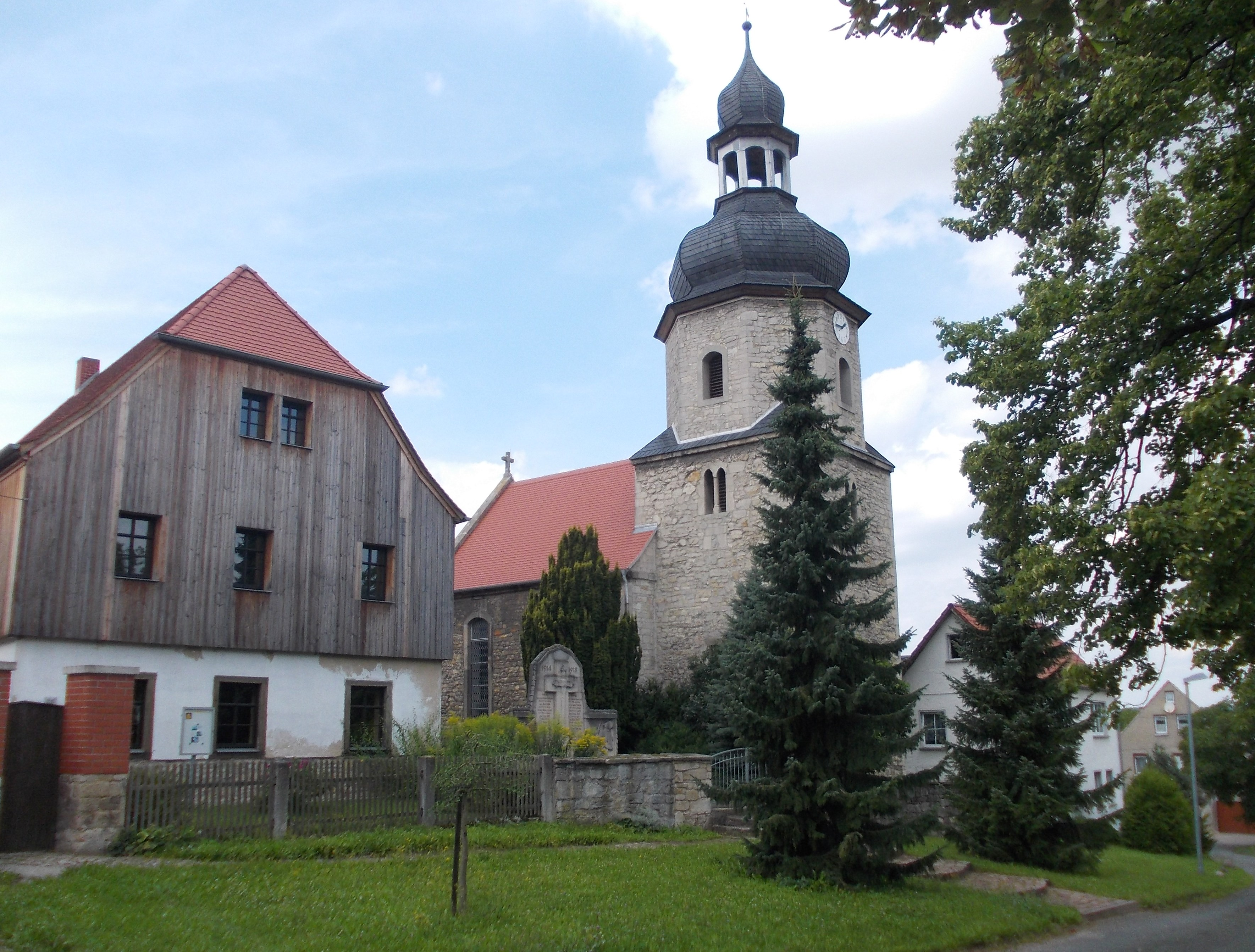 Punschrau church (Naumburg, district: Burgenlandkreis, Saxony-Anhalt)